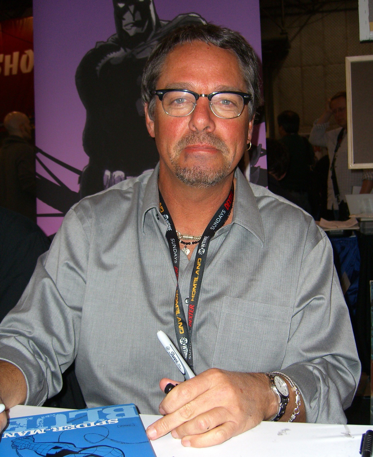 Comics creator Tim Sale at the New York Comic Con, October 15, 2011. This photo was created by Luigi Novi. It is not in the public domain, and use of this file outside of the licensing terms is a copyright violation.